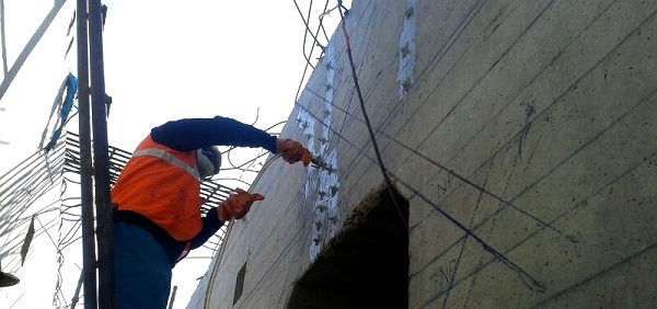 Arrah-Chhapra Bridge (Under Construction)